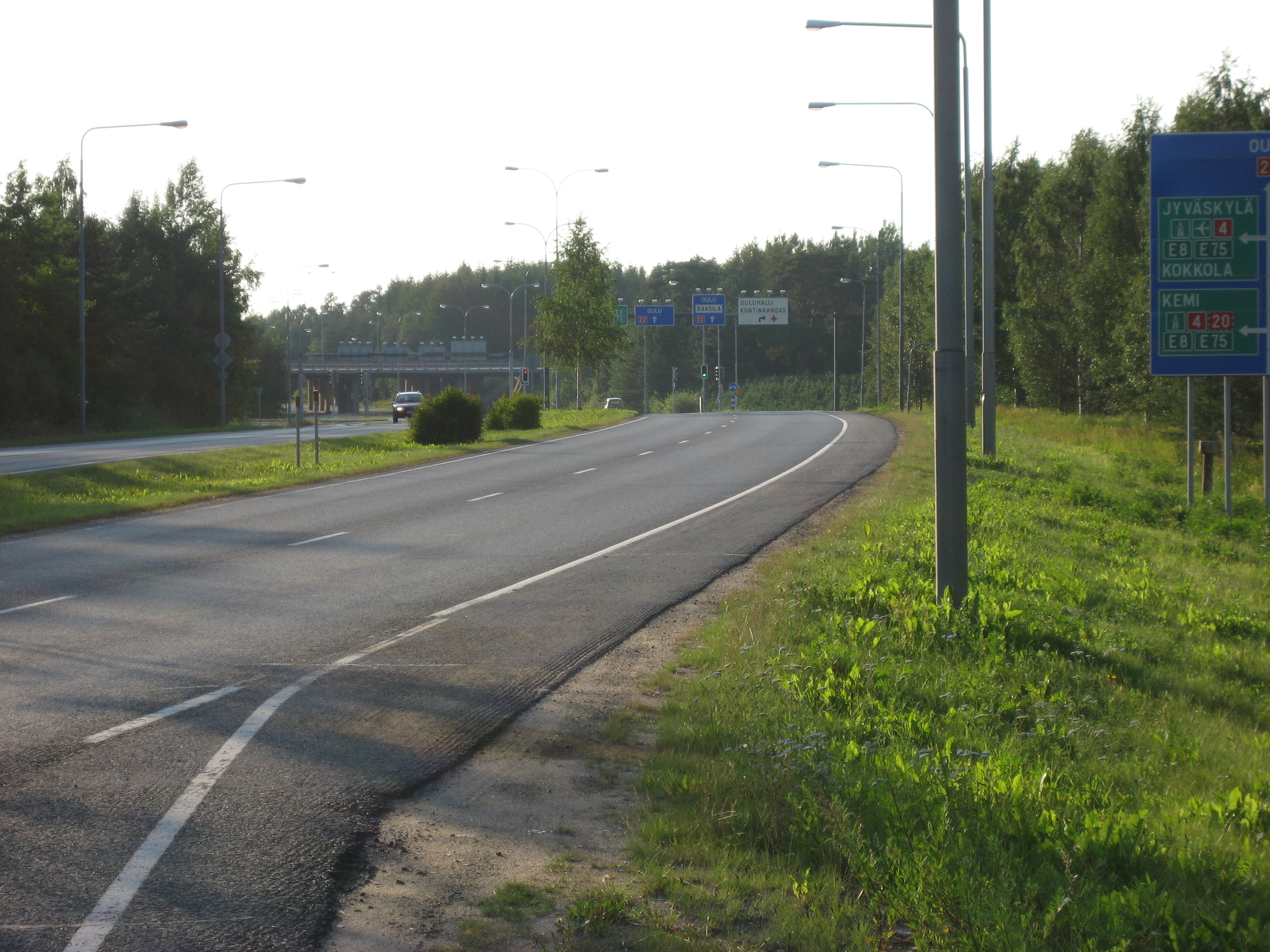 National road 22 in Kaukovainio, Oulu, Finland. The picture has been taken from the bus stop between Professorintie and Oulunsuuntie, looking west.